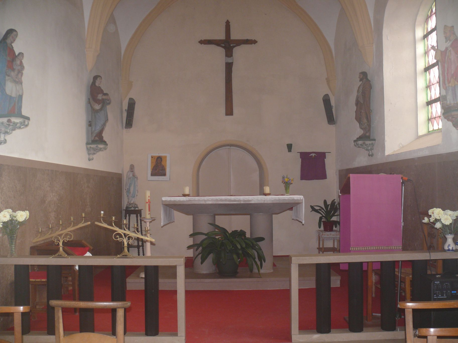 Saint-Quentin's church in Hervelinghen (Pas-de-Calais, France).